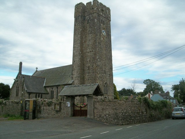 Lamphey Church. With the unusual Welsh dedication of St Tyfai (St Faith).